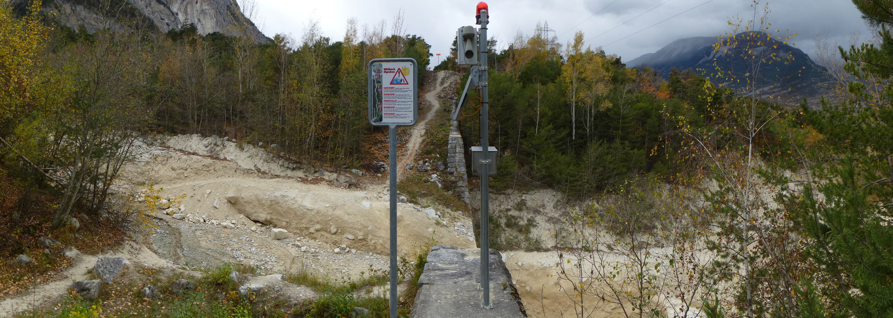 Illgraben warning system